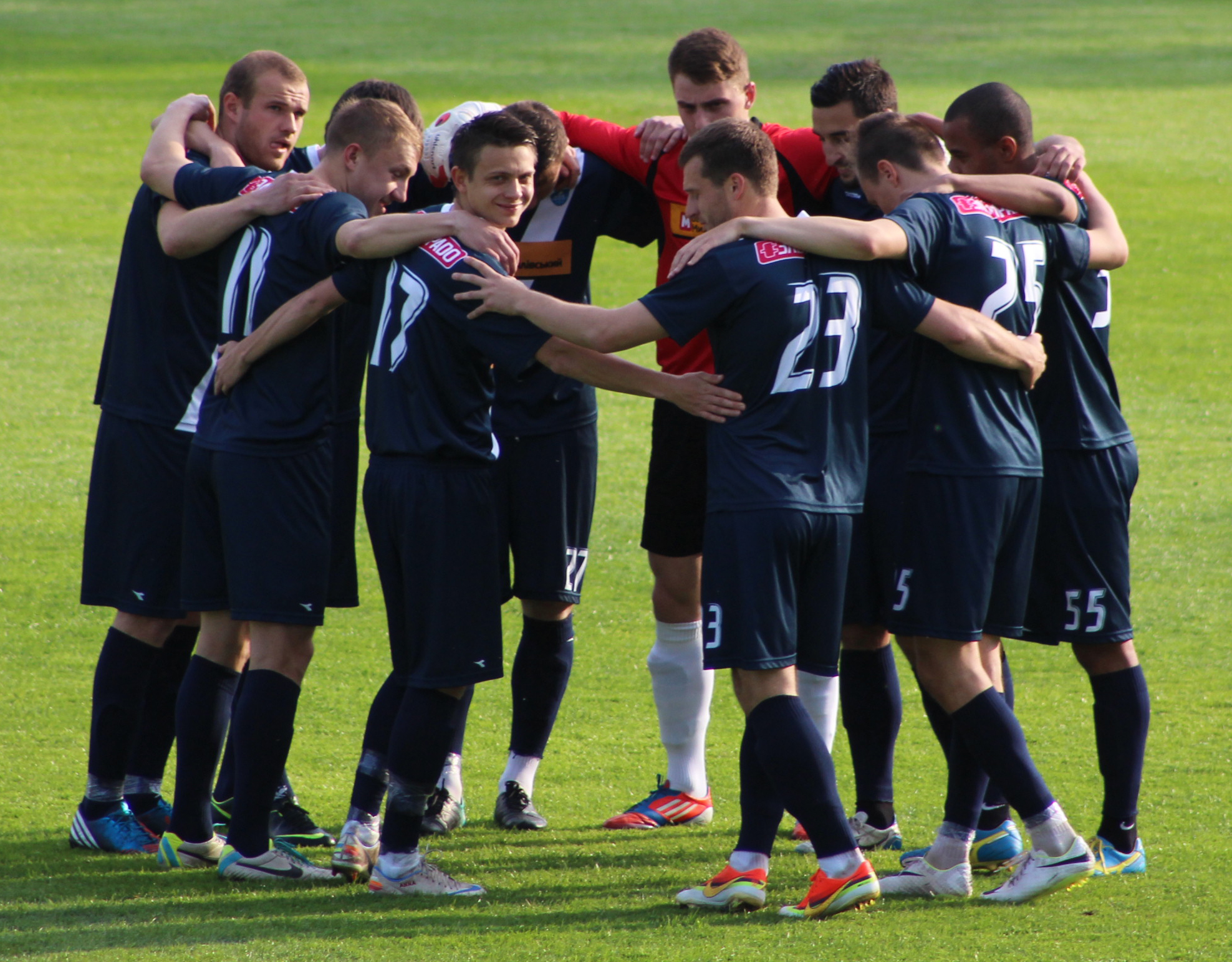 FC Obolon-Brovar Kyiv vs FC Slavutych Cherkasy, 1 May 2014, Ukrainian Second League